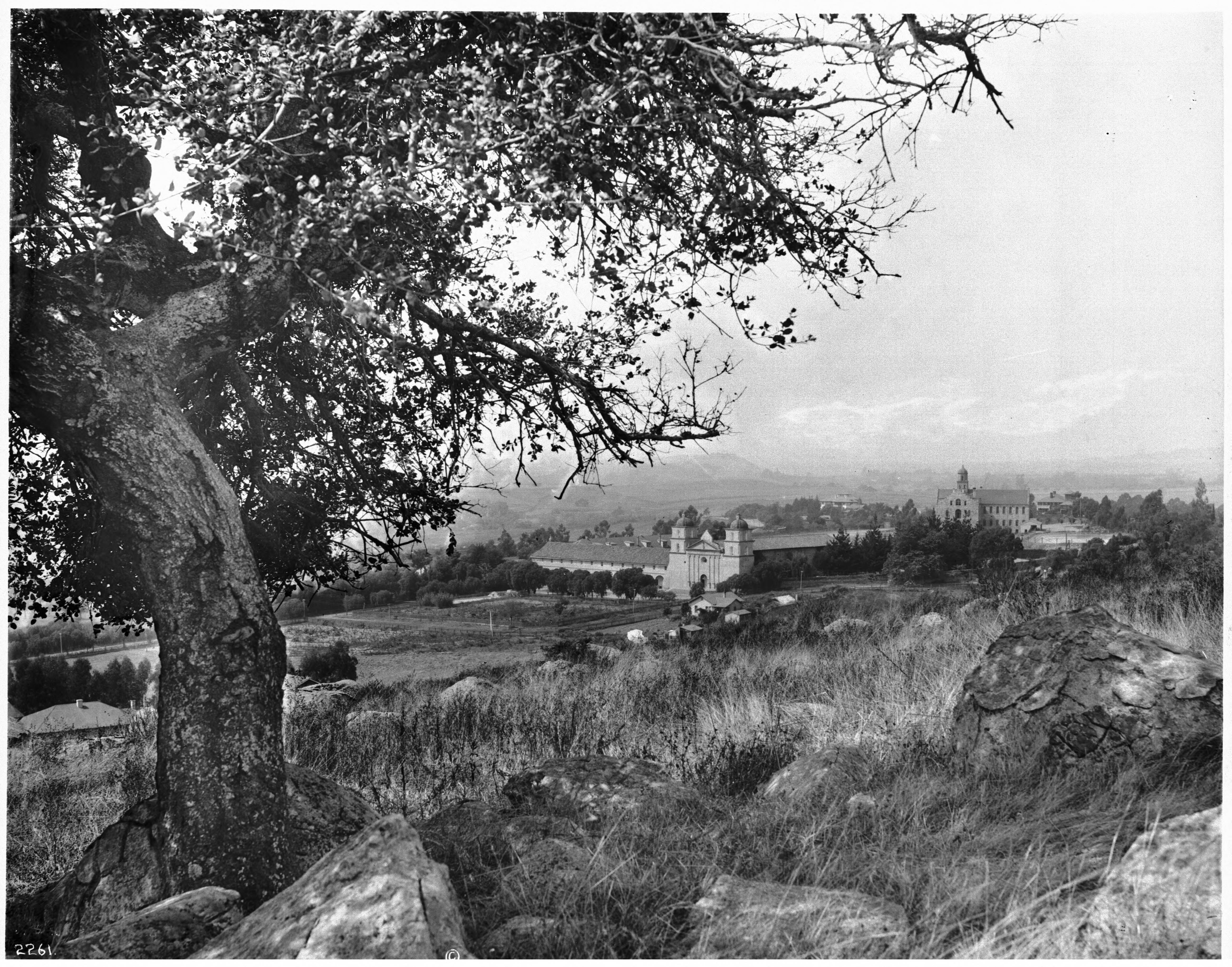 General view of Mission Santa Barbara and surrounding land from hill, ca.1901-1904 Photograph of a general view of the front of Mission Santa Barbara and surrounding land viewed from a hill, ca.1901-1904. The distant mission church has a symetric front with square bell towers flanking the main entry. A lower building is attached at left. Other non-Mission buildings are visible behind. A large oak tree is in the left foreground growing amid the scrub grass and rocks. Filename: CHS-2261 Coverage date: circa 1901/1904 Part of collection: California Historical Society Collection, 1860-1960 Format: glass plate negatives Type: images Geographic subject (city or populated place): Santa Barbara; Santa Barbara Repository name: USC Libraries Special Collections Accession number: 2261 Microfiche number: 1-144-77 Archival file: chs_Volume52/CHS-2261.tiff Part of subcollection: Title Insurance and Trust, and C.C. Pierce Photography Collection, 1860-1960 Repository address: Doheny Memorial Library, Los Angeles, CA 90089-0189 Geographic subject (country): USA Format (aacr2): 2 photographs : glass photonegative, photoprint, b&w ; 21 x 26 cm. Rights: Digitally reproduced by the USC Digital Library; From the California Historical Society Collection at the University of Southern California Call number: CHS-2261 Project: USC Repository Contributing entity: California Historical Society Date created: circa 1901/1904 Publisher (of the digital version): University of Southern California. Libraries Format (aat): photographic prints; photographs Geographic subject (state): California Subject (file heading): Mission Santa Barbara Legacy record ID: chs-m6280; USC-1-1-1-6389 Access conditions: Send requests to address or e-mail given. Phone (213) 821-2366; fax (213) 740-2343. Geographic subject (county): Santa Barbara Geographic subject (roadway): 2201 Laguna Street Subject (lcsh): Missions, Spanish Subject: Santa Barbara Mission